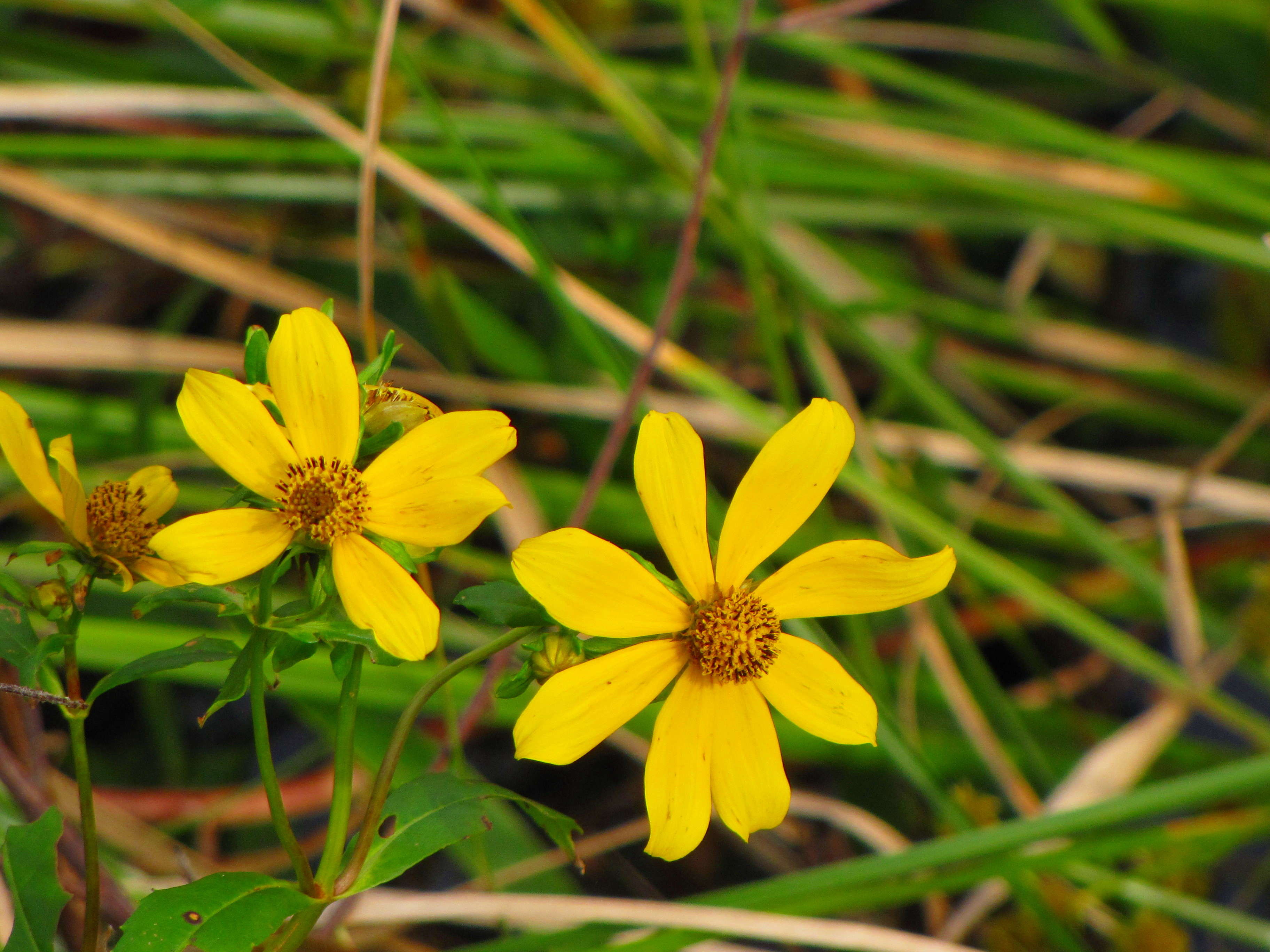 Bidens laevis Ocklawaha Prairie Ocklawaha Restoration Area Marion County, Florida